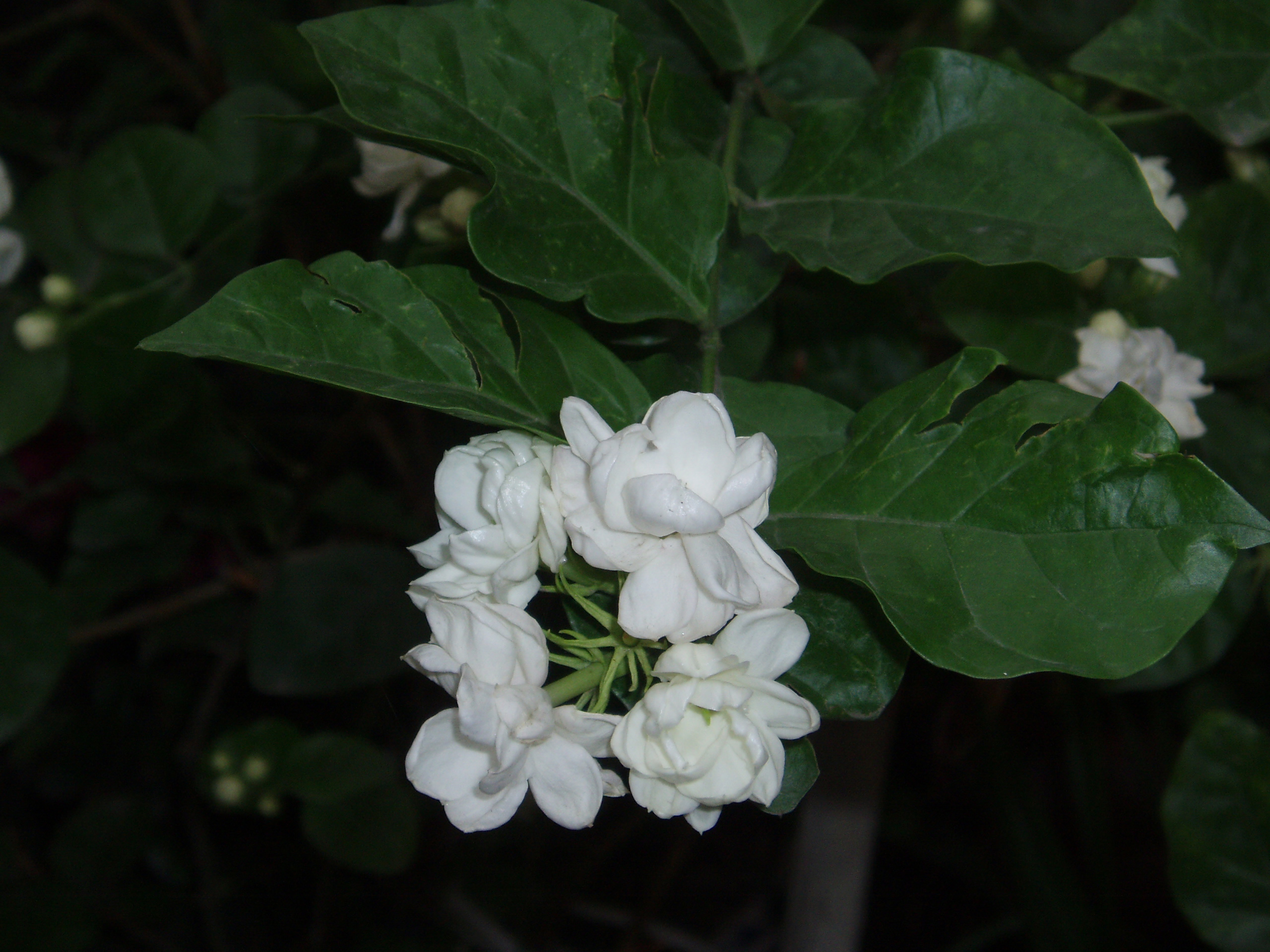 Arabian jasmin 'Arabian Nights'